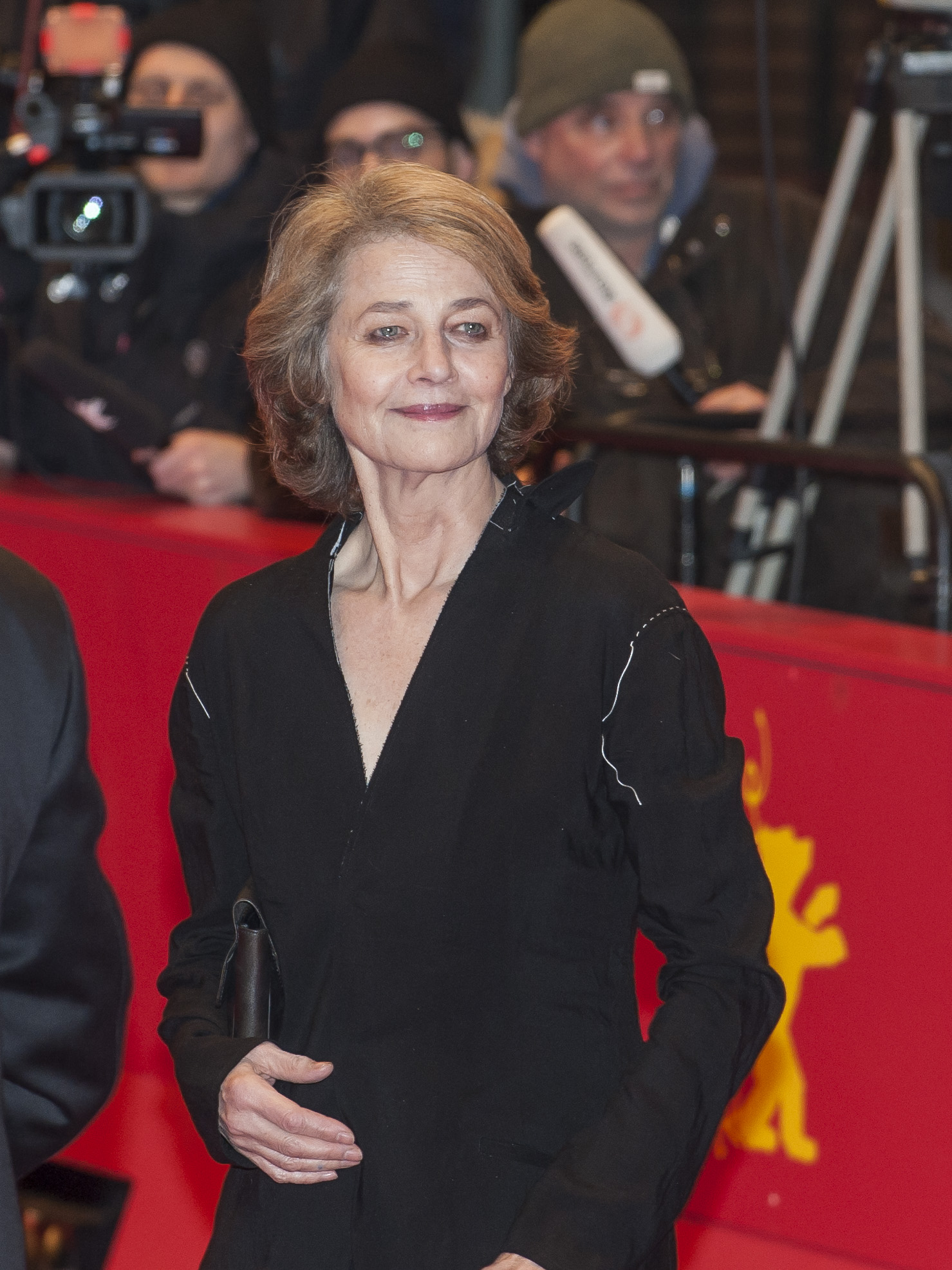 Actress Charlotte Rampling At the premiere of the movie "45 Years"